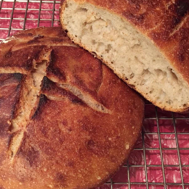 Sourdough bread cooling